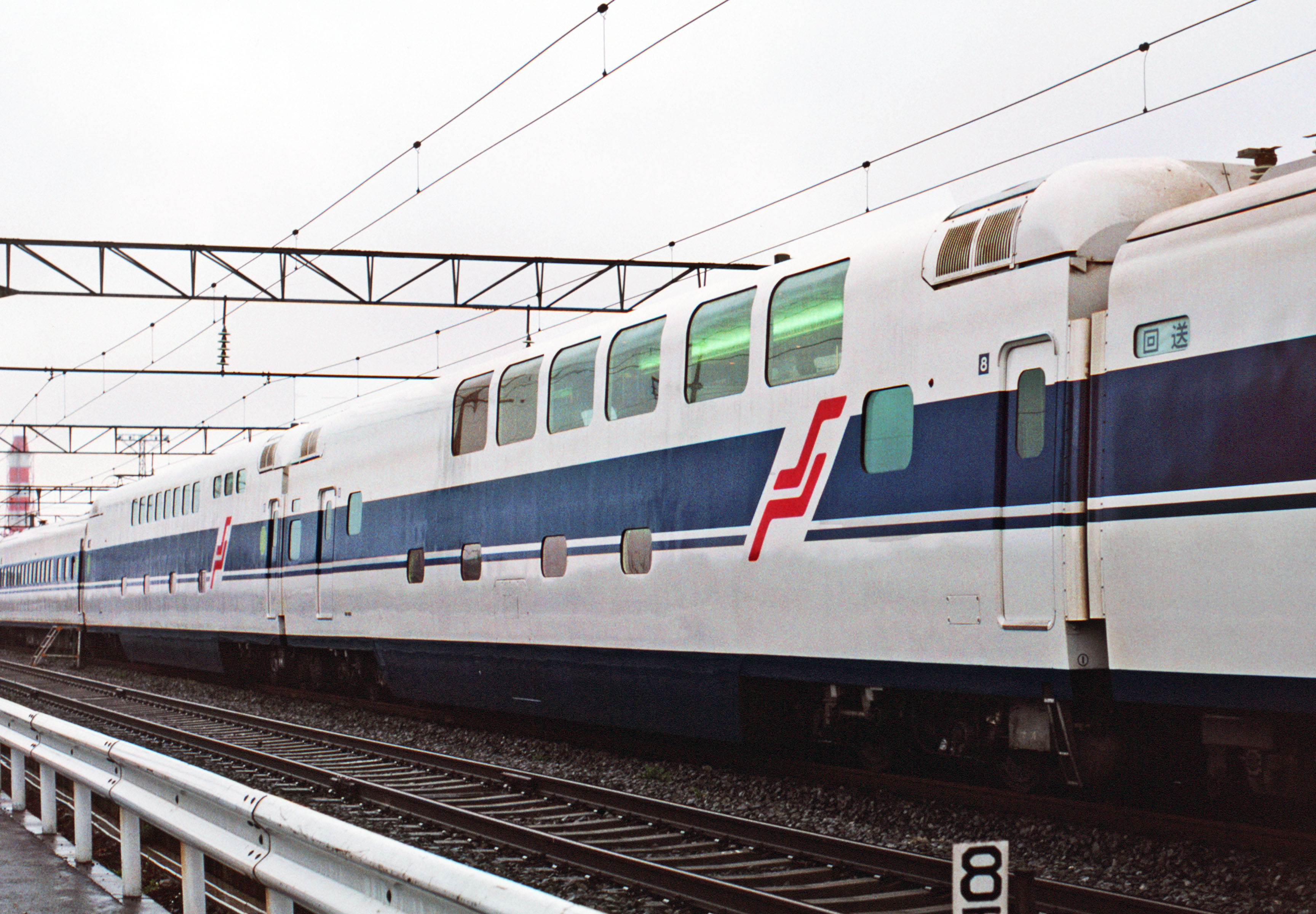 100 series shinkansen bilevel dining car 168-9001 of prototype set X1 at Oi shinkansen depot in Tokyo